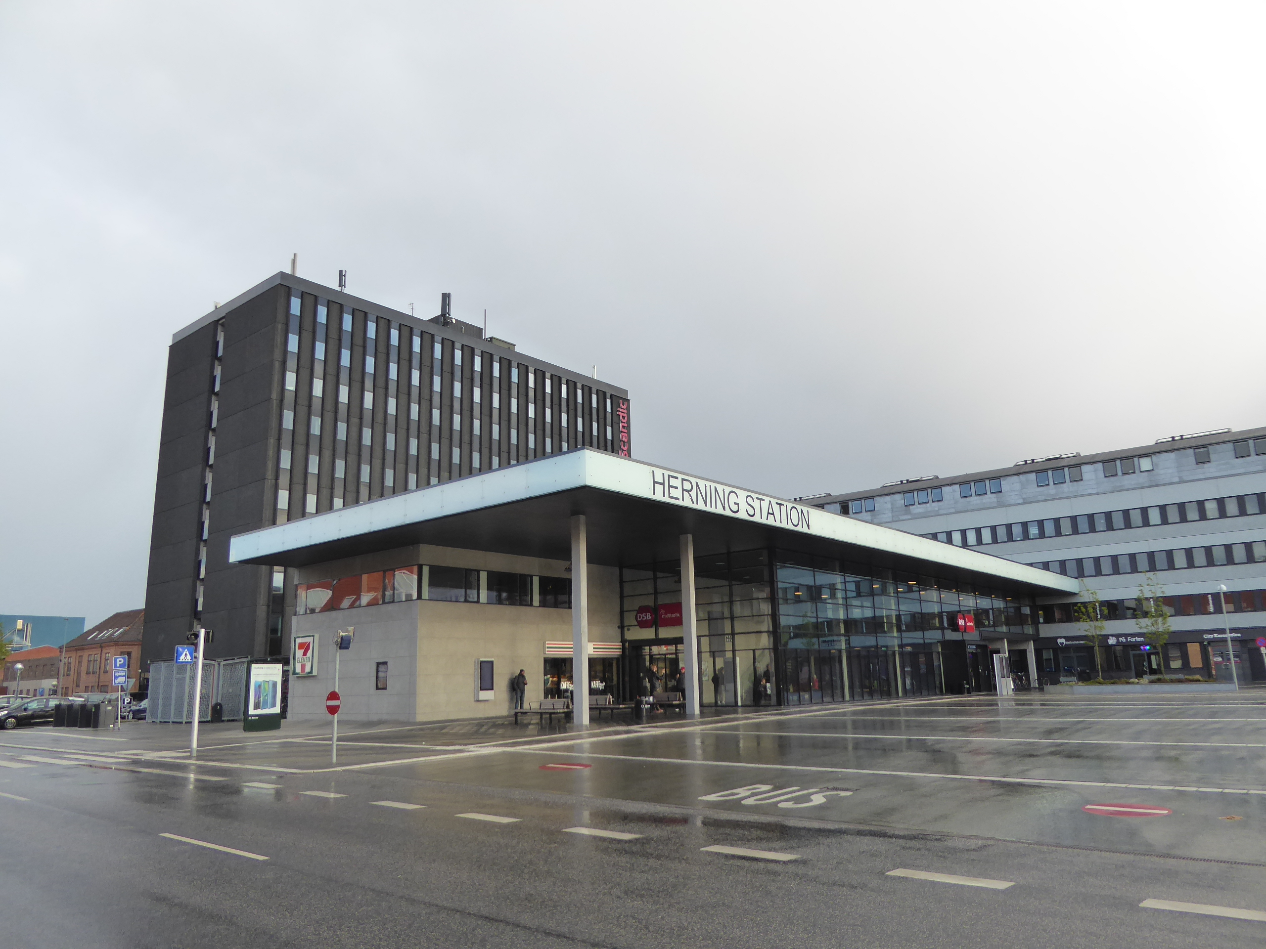 The new station building of Herning Station in Denmark. The black building behind it is the hotel Scandic Regina.